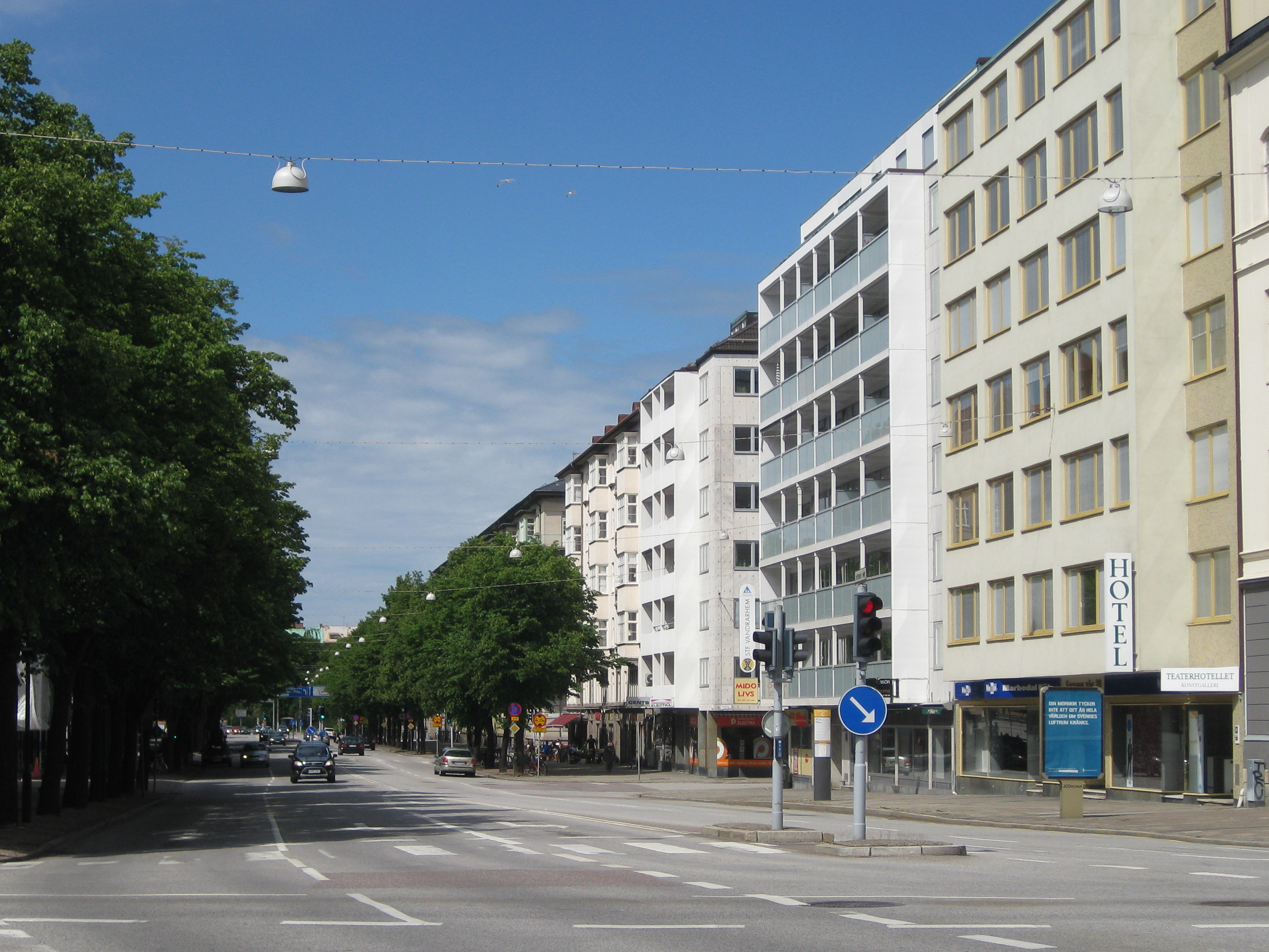 Fersens väg in Malmö, Skåne, Sweden